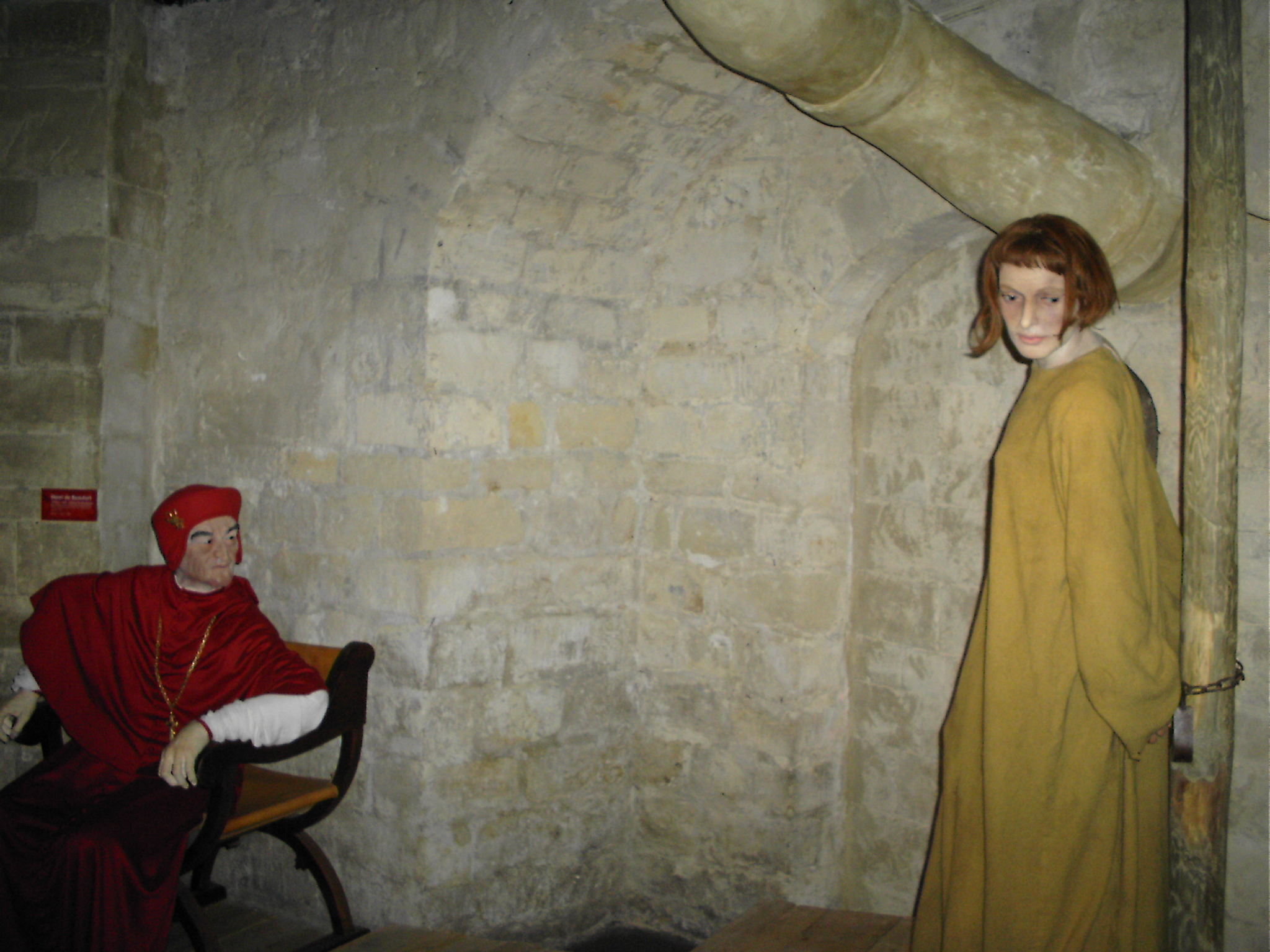 The scene of the murder of Joan of Arc, Grevin, Paris (2006)